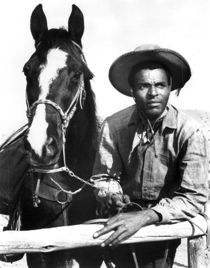 Photo of Otis Young as Jernal David from the short-lived television program The Outcasts. The show is significant in that it was the first Western television program to feature an African-American co-star (Young).